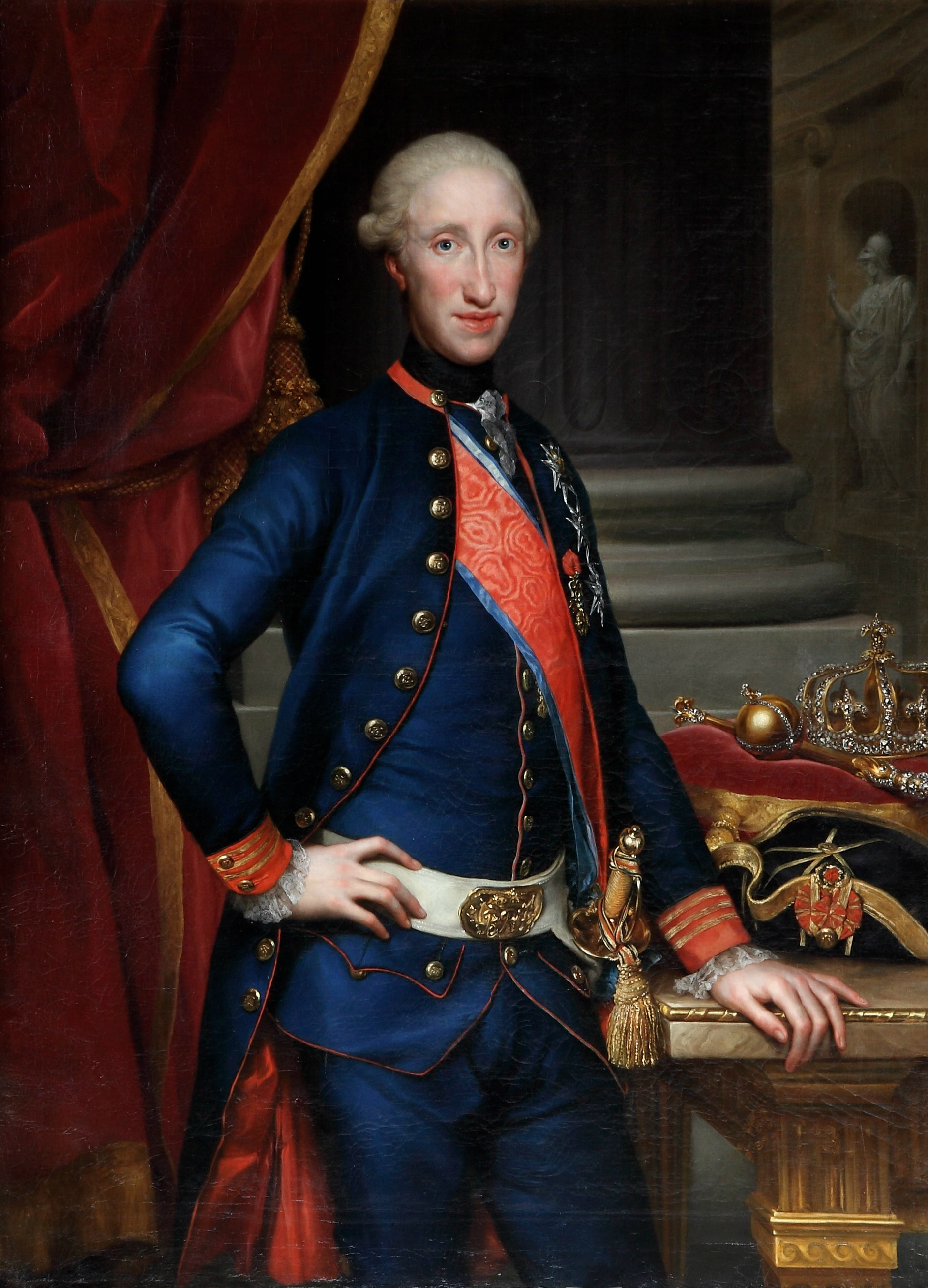 Portrait of King Ferdinand IV of Naples (Future King of the Two Sicilies) standing next to a crown.